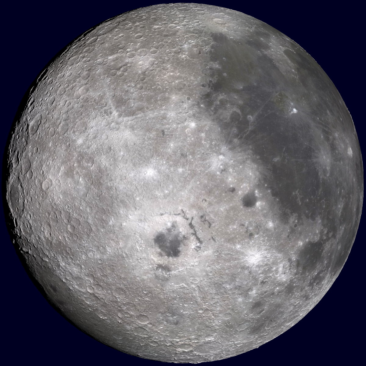 Near side lunar phase image set rendered by Jay Tanner - 2014. Size : 1200x1200 pixels Format : JPEG Author : Jay Tanner - 2014 License : These images are released under the provisions of the Creative Commons Attribution-ShareAlike 3.0 license. The image set consists of 361 images of the geocentric moon with 3D relief at 1-degree intervals of phase measured positively counterclockwise around the sky, eastward, from 0 to 360 degrees. Phase Orientation Legend: New = 0 degrees First Quarter = 90 Full = 180 Last Quarter = 270 New = 360